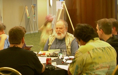 Dave Arneson GMing Blackmoor at ConQuesT 2006